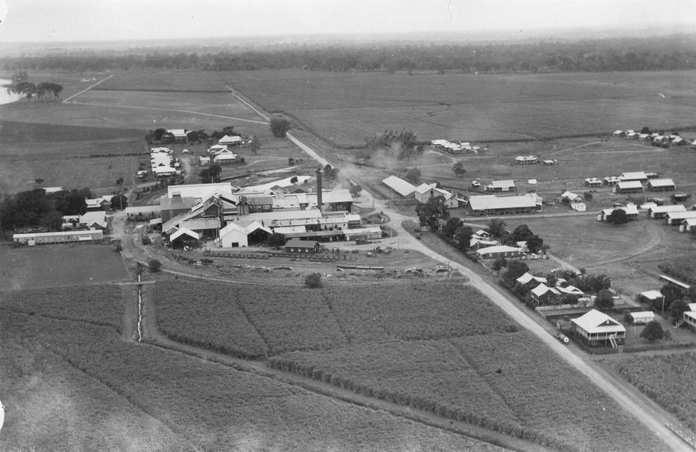 Fairymead Sugar Mill, Bundaberg, 1935 Aerial view of the refinery and the surrounding plantation. The refinery was commissioned in 1882 by A.H. and E. Young. Trading as AH and E Young, Arthur, Horace and Ernest Young harvested their first cane crop in 1882. Juice was punted to Millaquin until Fairymead became a complete sugar mill in 1884. Fairymead was floated into a public company, Fairymead Sugar Company, in 1912. (Description supplied with photograph.).